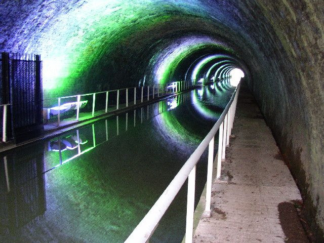 The recently illuminated Newbold Tunnel, Warwickshire